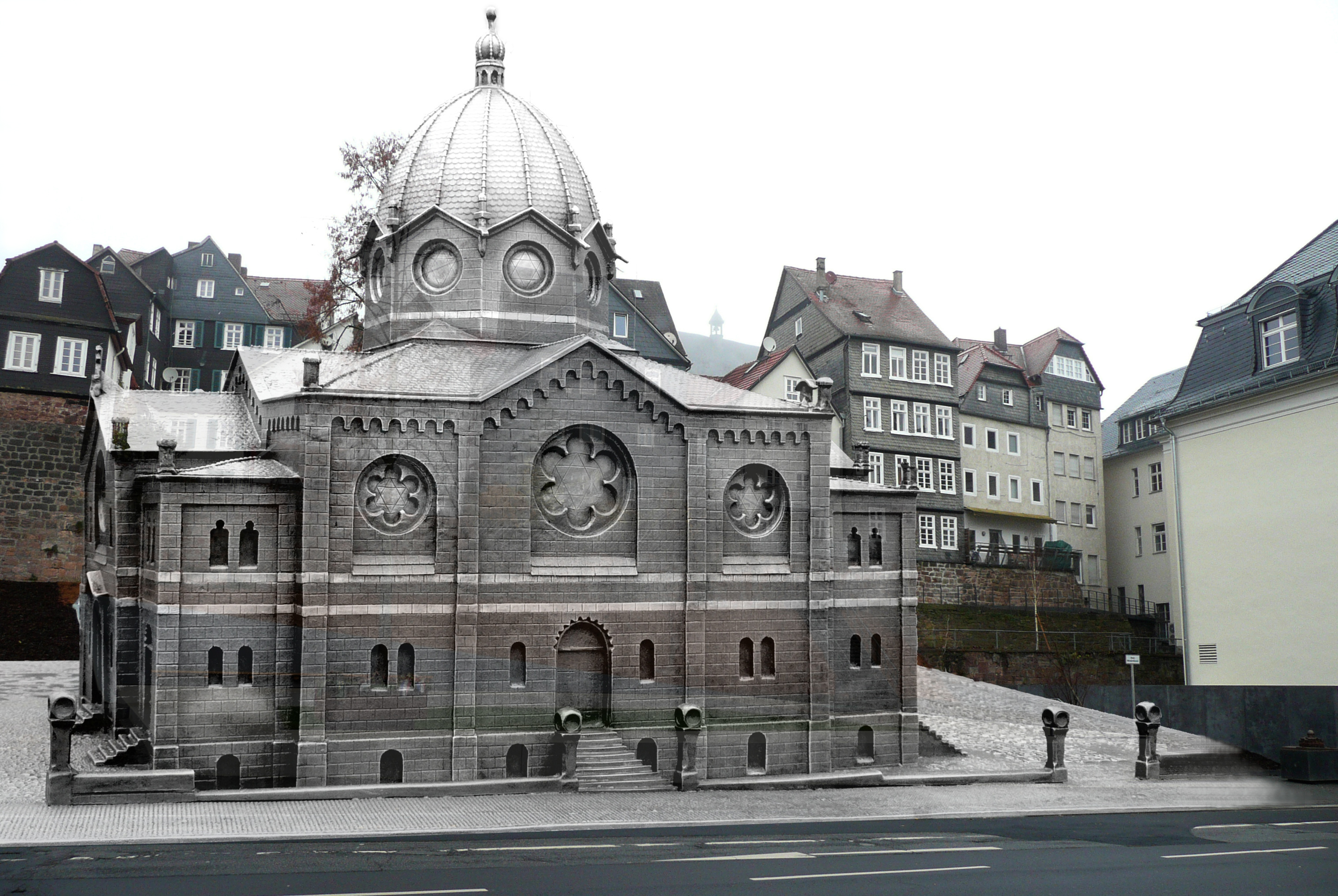 The former Synagogue (1897-1938) on the memorial ground “Garten des Gedenkens” in the Universitätsstraße in Marburg, seen from South (photo composition of the 3D-model in the right corner).